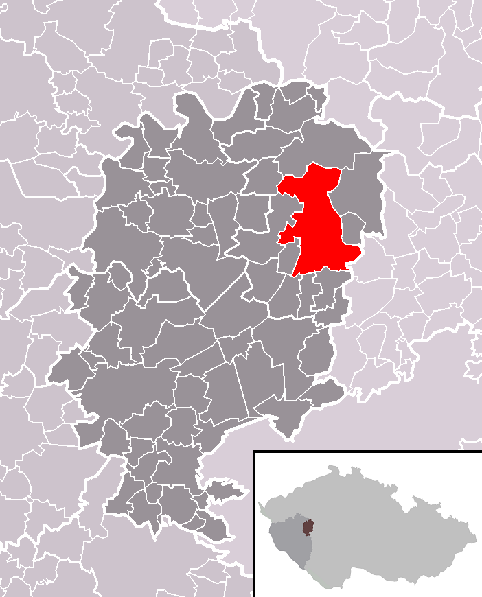 Location of Zbiroh town within Rokycany District and identical administrative area of Rokycany as a Municipality with Extended Competence.